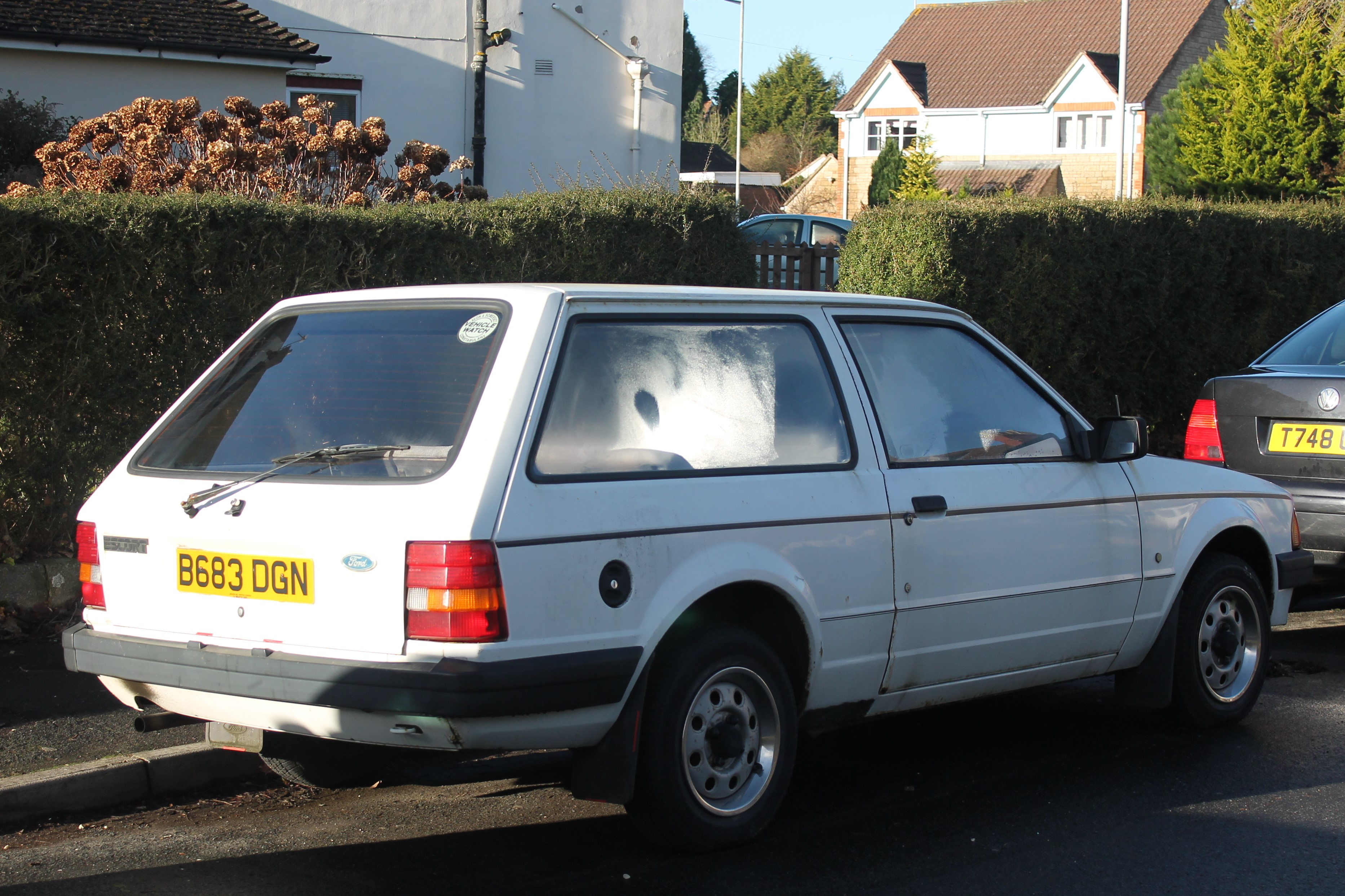 I love the Mk 3 Ford Escorts, and to see one in base spec, and unmodified was a lovely sight. You just don't have three door estates any more. This one looked really well used, like the thousands you saw everywhere back in the 90s. I think most of these were culled around the turn of the millennium, so to see one kept for such a long time is excellent, especially a bog standard lowest spec, and not an upmarket Ghia. This one also has the teeniest 1.1 litre engine, an older one carried over from the Fiesta. The owner splashed out on foglights! This one's not far from its 30th birthday. Can anyone find out for me how many owners this one's had? What I especially liked with this one was the badges in the front and back windows "Avon and Somerset Constabulary Vehicle Watch". These were a common stolen car back in the day, but I'm not sure how much interest one would hold to a 21st century potential car thief?! The vehicle details for B683 DGN are: Date of Liability 01 05 2014 Date of First Registration 02 05 1985 Year of Manufacture 1985 Cylinder Capacity (cc) 1117cc CO₂ Emissions Not Available Fuel Type PETROL Export Marker N Vehicle Status Licence Not Due Vehicle Colour WHITE Vehicle Type Approval Not Available